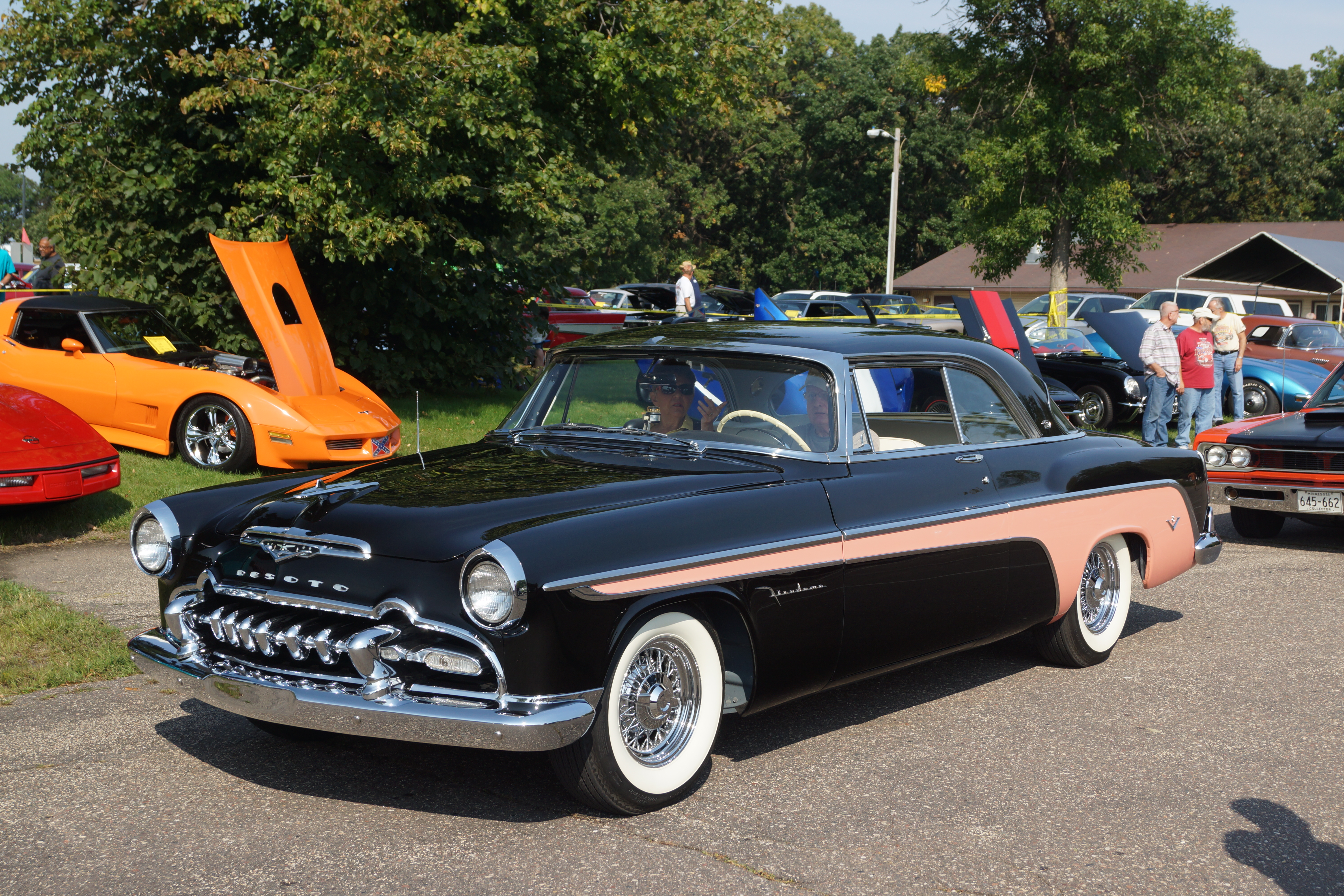 50th Annual Twin Cities Collectors Car Show & Swap Meet Hosted by North Central Chapter Hudson Essex Terraplane Club Aquatore Park Blaine, Minnesota September 2017 ----- Click here for more car pictures at my Flickr site. Or here for my Car Crazy Tumblr site. Or on Twitter @DVS1mn.